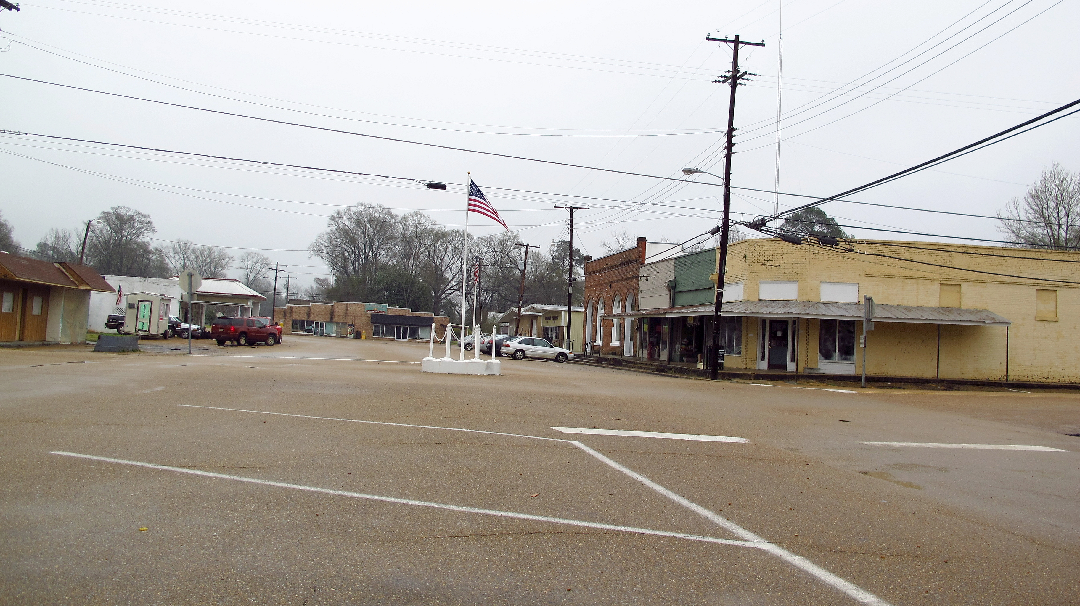 Main Street in North Carrollton, Mississippi.